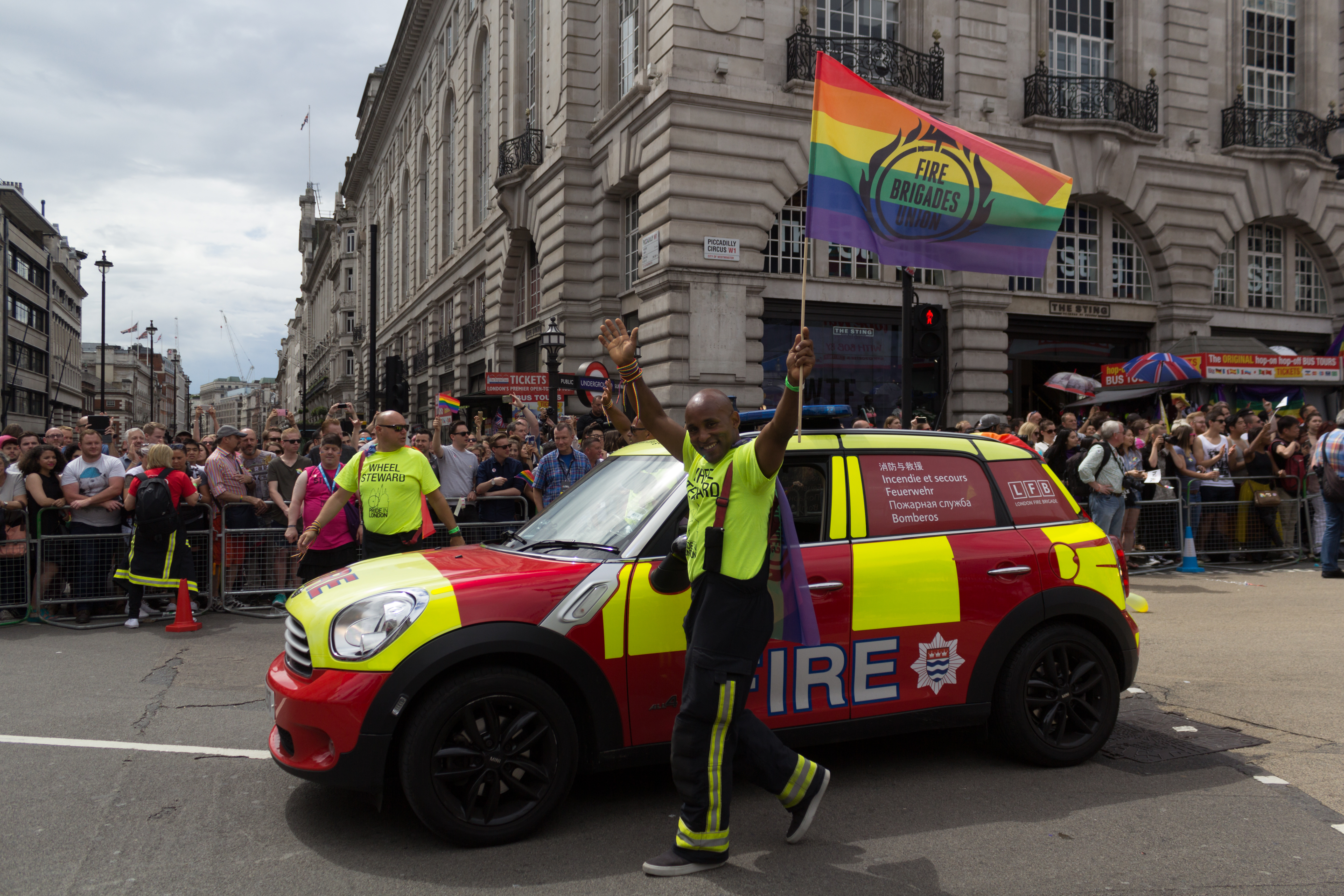 Pride in London 2016 - London Fire Brigade